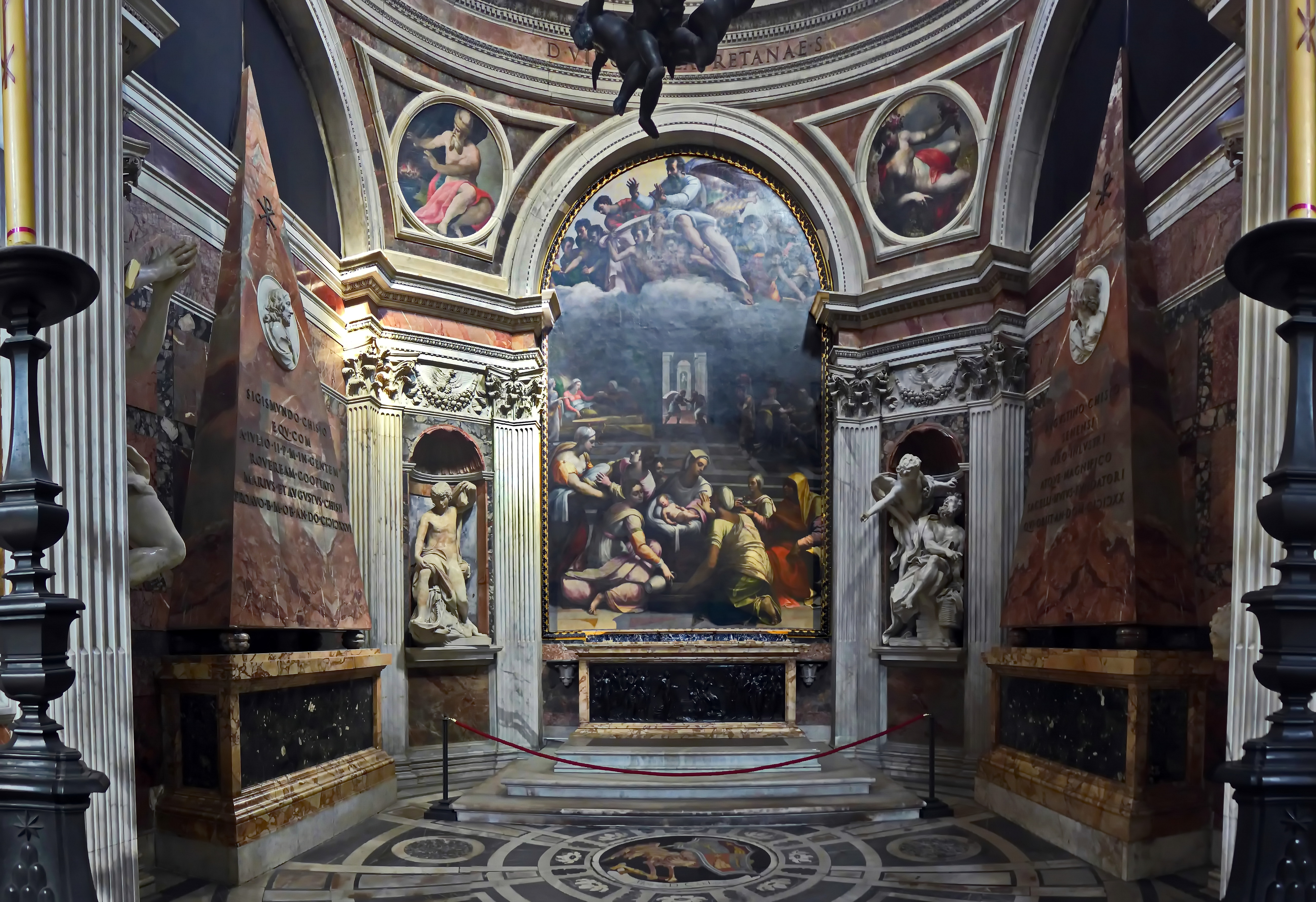 Santa Maria del Popolo Chigi Chapel